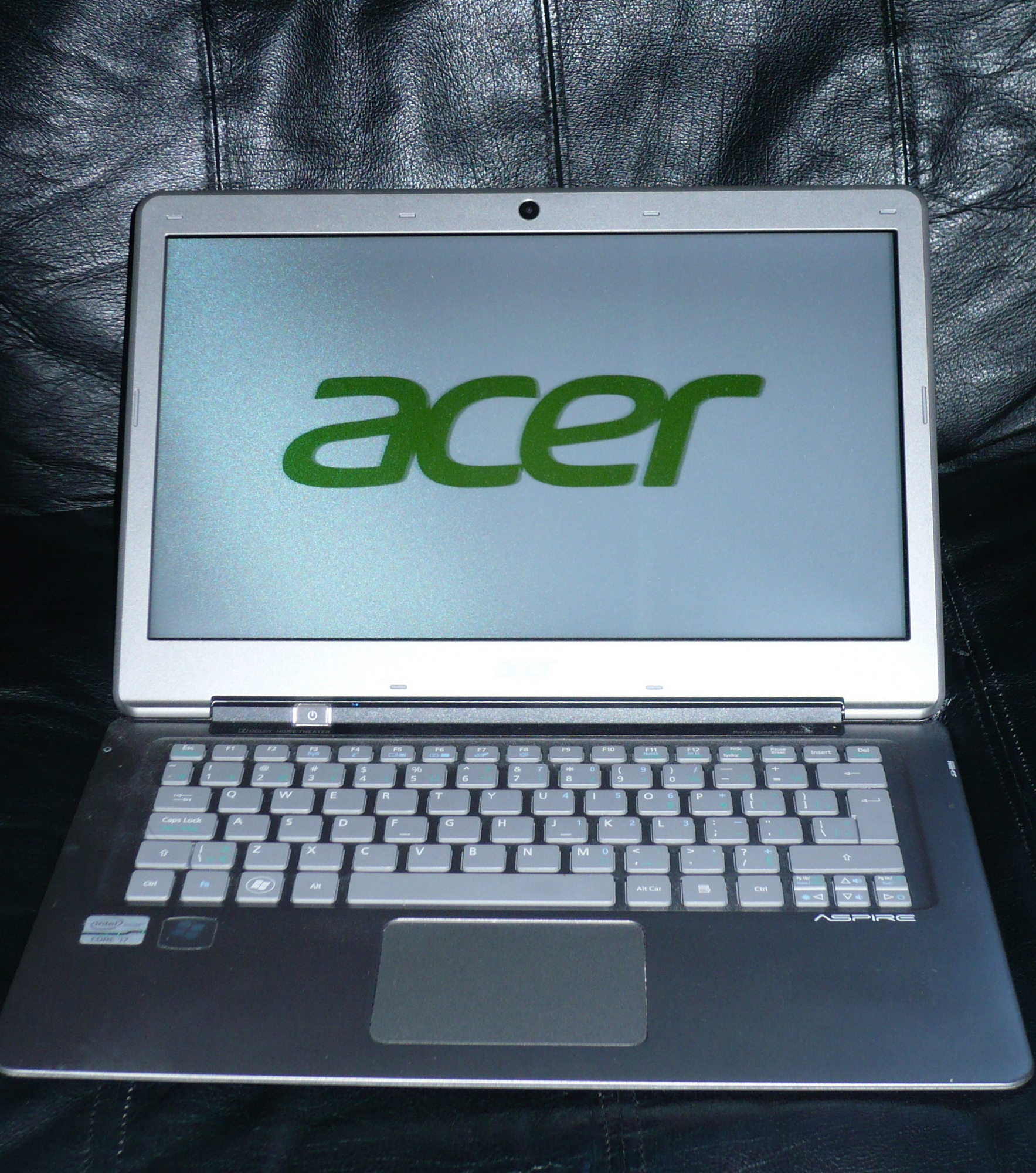 Acer 13.3' Aspire S3 ultrabook with Intel CORE i7 and 240G solid state drive